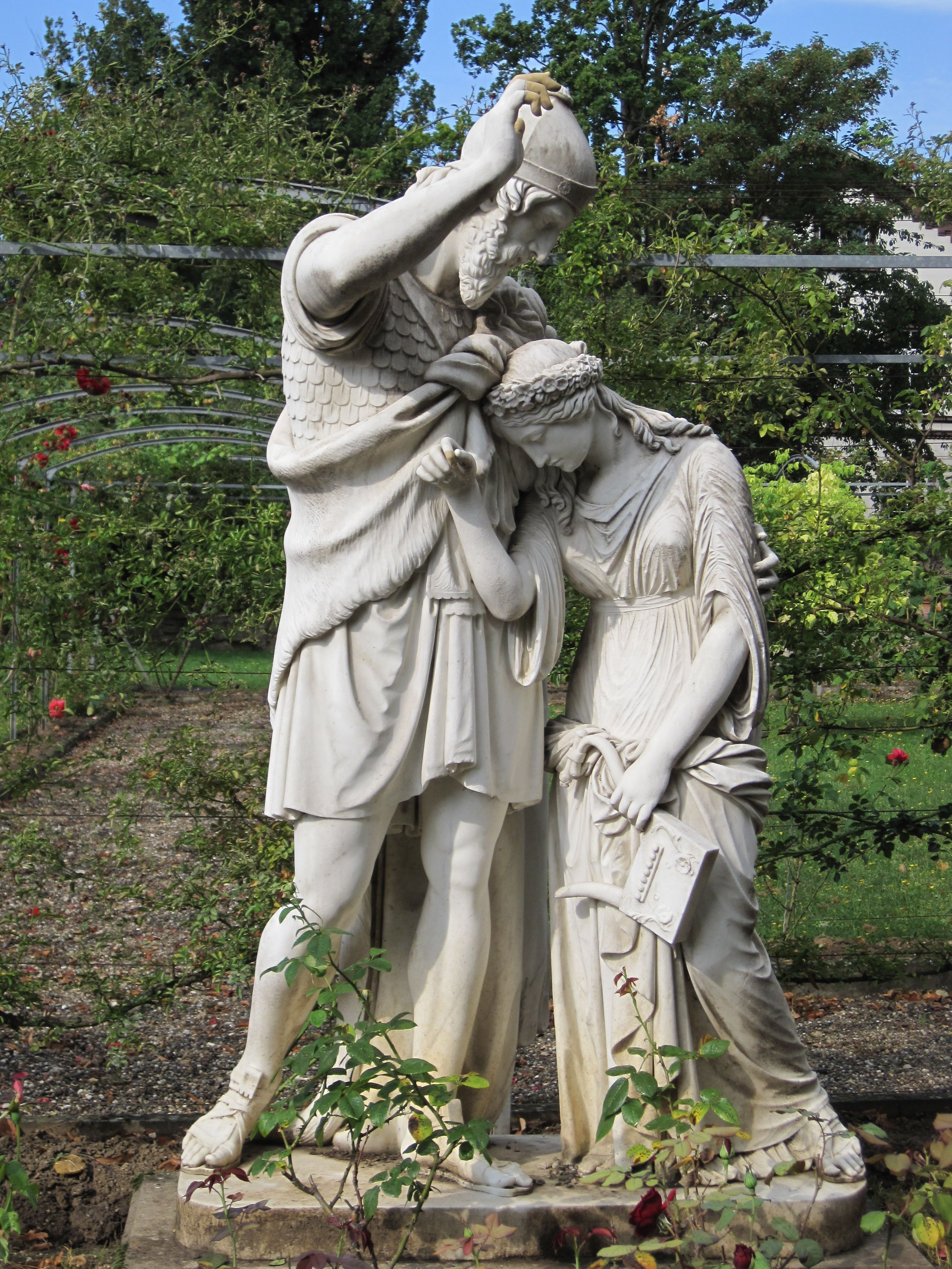 The sculpture Jephthah and his Daughter by Emil Wolff, Erbach in the Rheingau region, Hesse, Germany. Object location50° 01′ 21.91″ N, 8° 05′ 59.38″ E